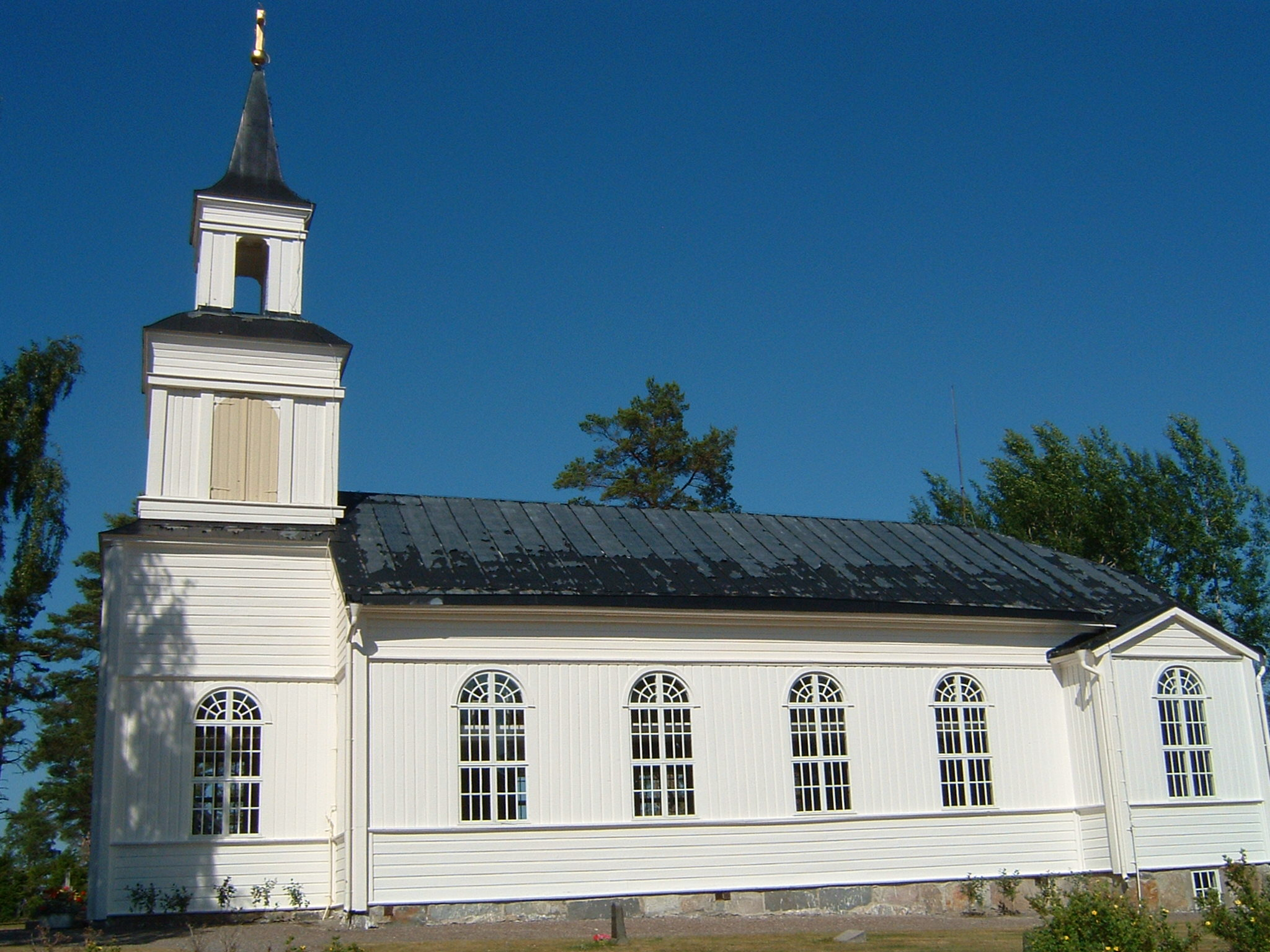 The church building of "Hemsö kyrka" at Hultom 205, Hemsö, in Härnösand municipality, viewed from south